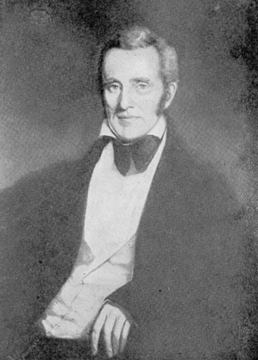 William Steuart (1780-1839) Source: Wilbur F. Coyle, The Mayors of Baltimore (Reprinted from The Baltimore Municipal Journal, 1919) 37-38. William Steuart, Mayor of Baltimore, 1831 to 1832, served only during the unexpired term of Mayor Small, who resigned March 31st, 1831.